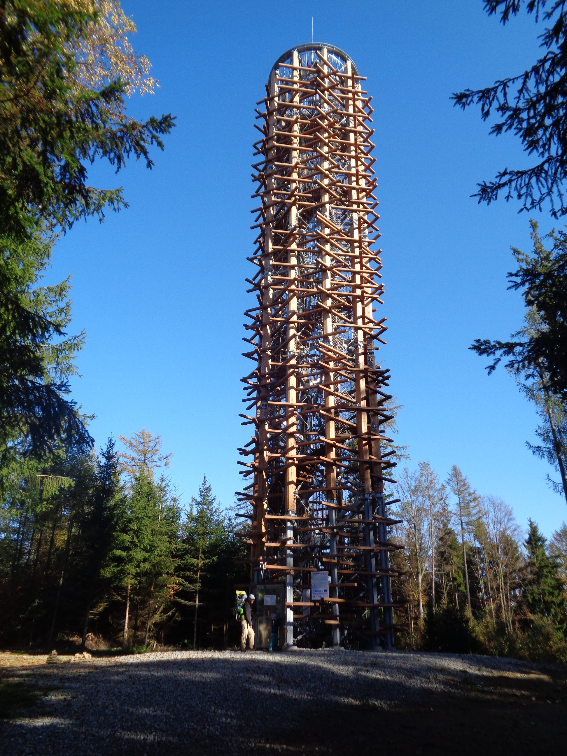 Hradišťský vrch, Kaplice (Český Krumlov District)